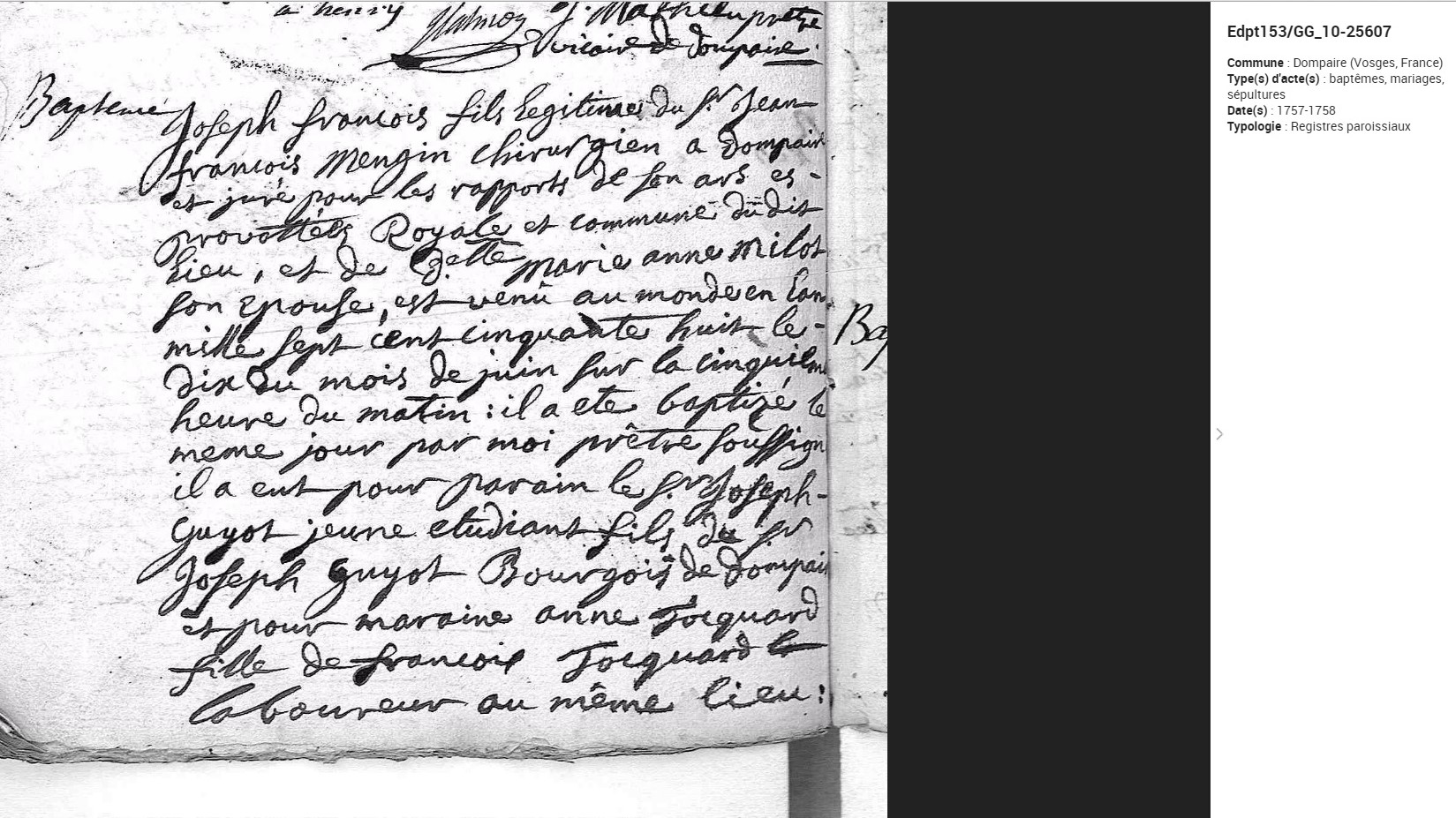 Birth Certificate of Joseph François Mangin in Dompaire, Vosges, France (1758). Note that family names in the 18th century could have different spelling as often based on pronunciation (Mengin = Mangin).